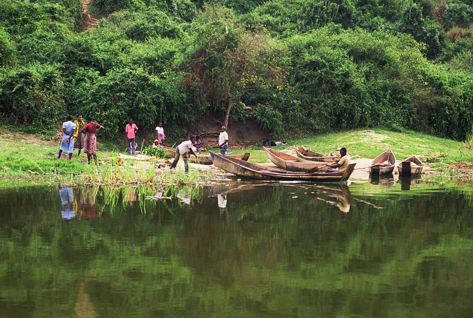 Fishermen at the "Kazinga-Channel", between Lake Edvard and Lake George, near Lake Edvard, South-West-Uganda (Queen-Elizabeth-National-Park).